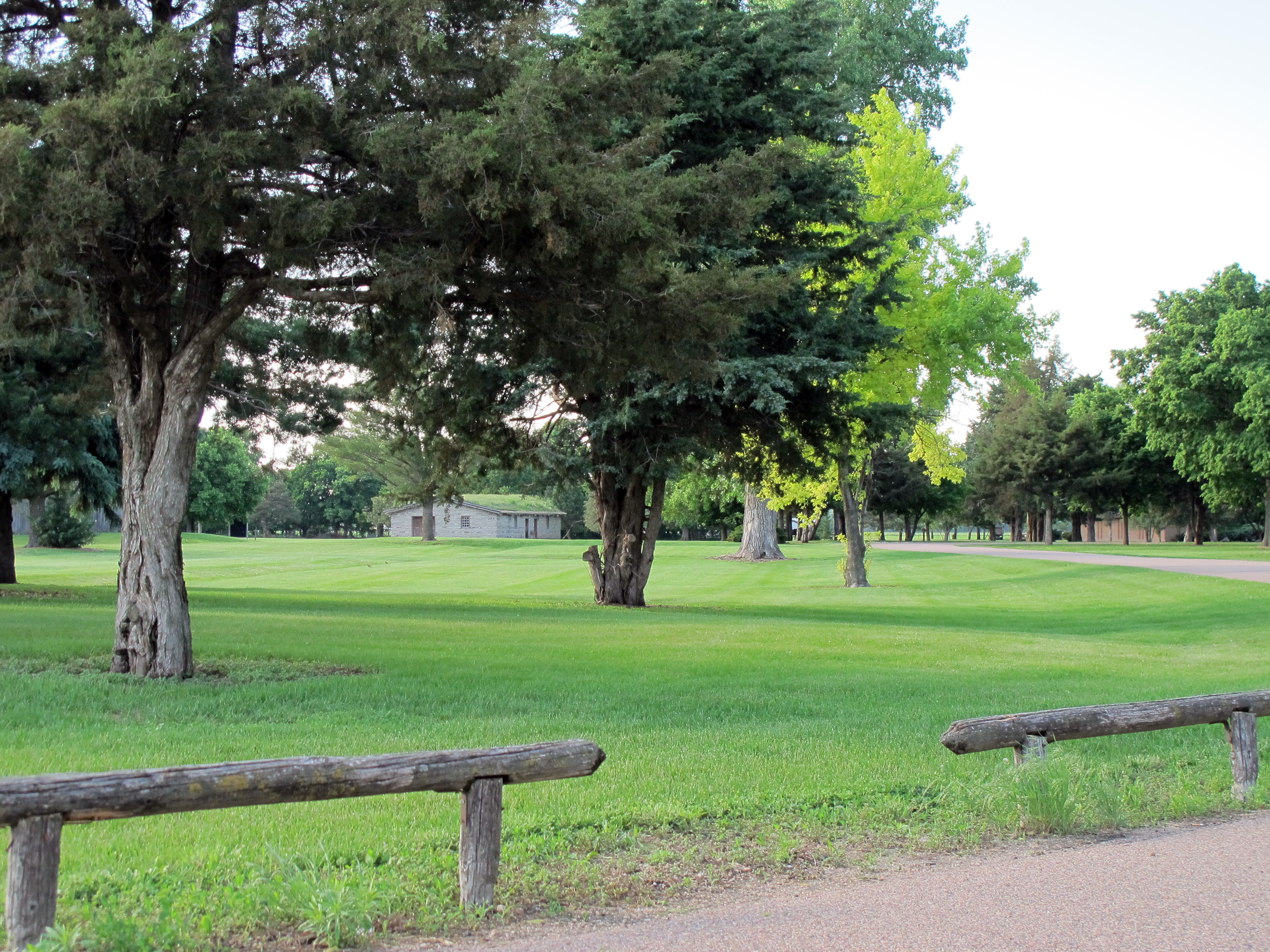 Photo of Fort Kearny State Historical Park in Kearney County, Nebraska. Photo is looking north and slightly northwest from the park's front entrance along Nebraska State Link L50A. The reconstructed stockade (far left of lower center), restored blacksmith shop (left of lower center) and the visitor center (right of lower center) can all be seen in this photo.